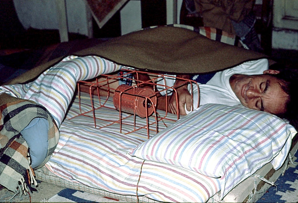 I took this photo of an electrical bed warmer (with a shielded electric bulb) in Dharamkot (Himachal Pradesh), India in 1979.